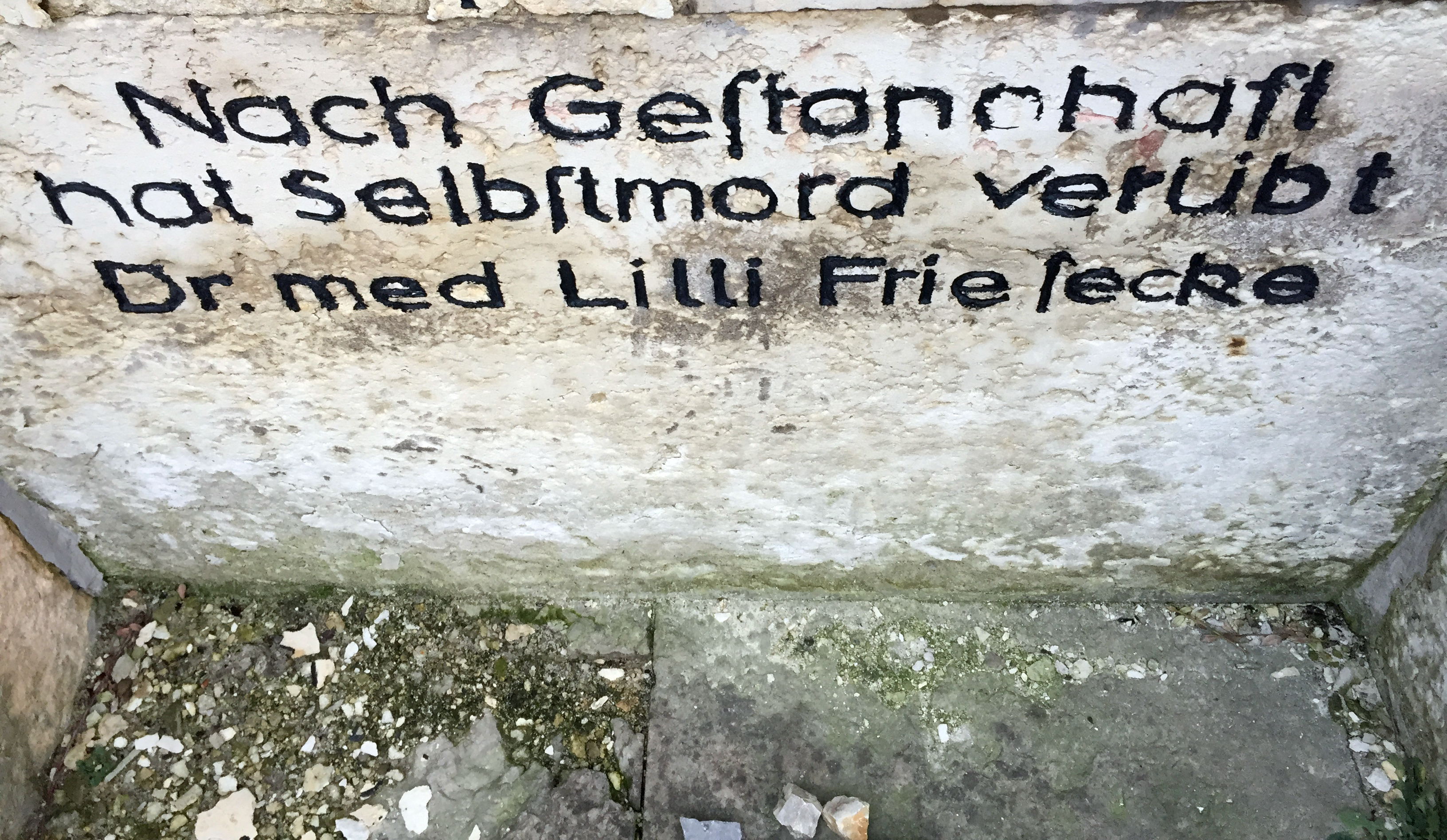 memory inscription for Mrs Lilli Friesicke MD in Brandenburg an der Havel